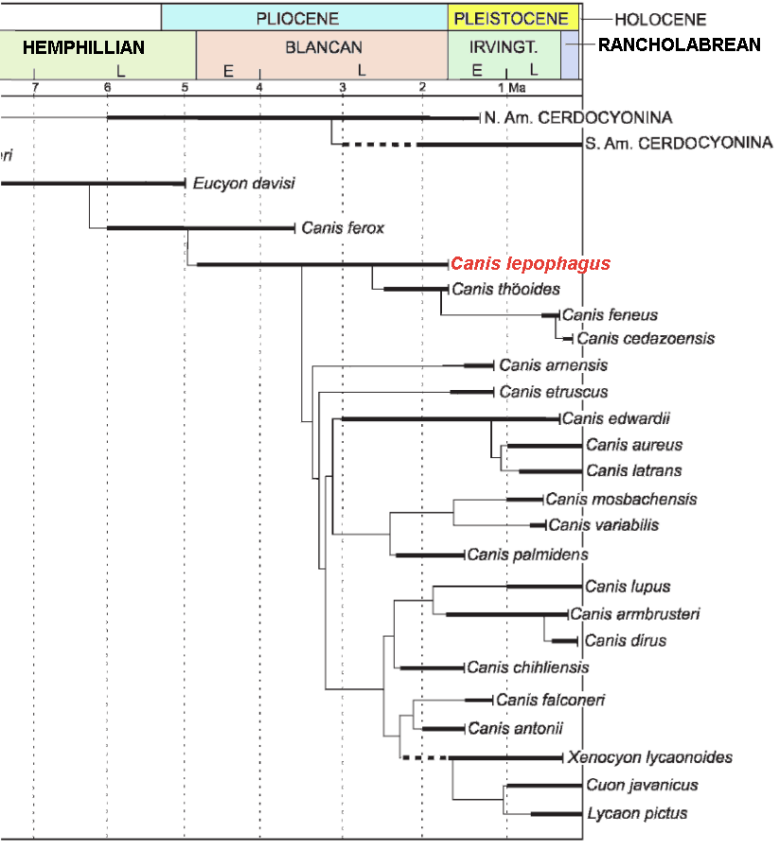 Diagram highlighting existence of Canis armbrusteri